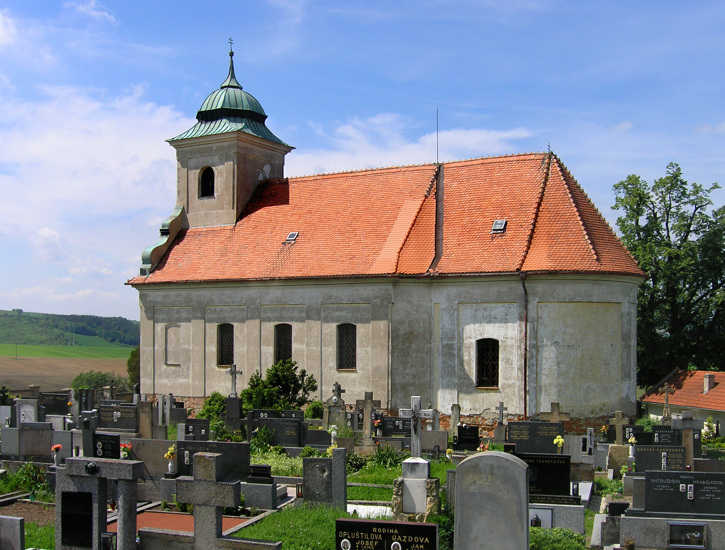 Church between Roštín and Cetechovice, Czech Republic